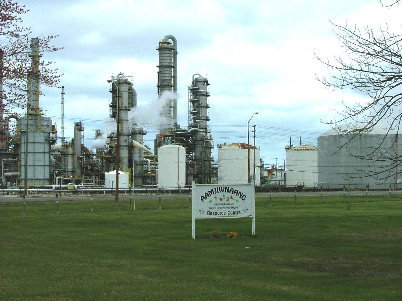 This is a shot from the front yard of the Aajimwnaang Resource Centre on the First Nations Reserve in Sarnia. It shows the proximity of the Reserve to Chemical Valley.